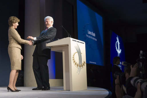 Mrs. Laura Bush is welcomed to the podium by former President Bill Clinton Wednesday, September 20, 2006, at President Clinton's Annual Global Initiative Conference in New York. During her remarks, Mrs. Bush announced a $60 million public-private partnership between the U.S. Government and the Case Foundation to provide clean water for up to 10 million people in sub-Sahara Africa by 2010. The partnership will support the provision and installation of PlayPump water systems in approximately 650 schools, health centers and HIV affected communities. White House photo by Shealah Craighead